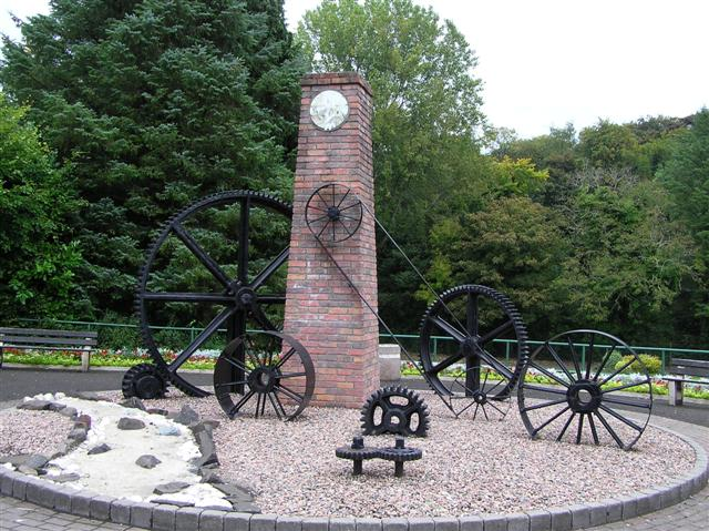 Linen machinery display, Upperlands As seen from the roadside